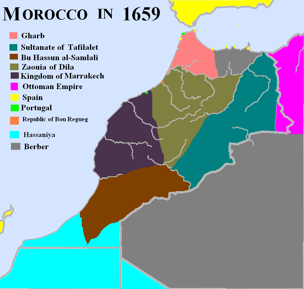 Historic map of Morocco in 1659